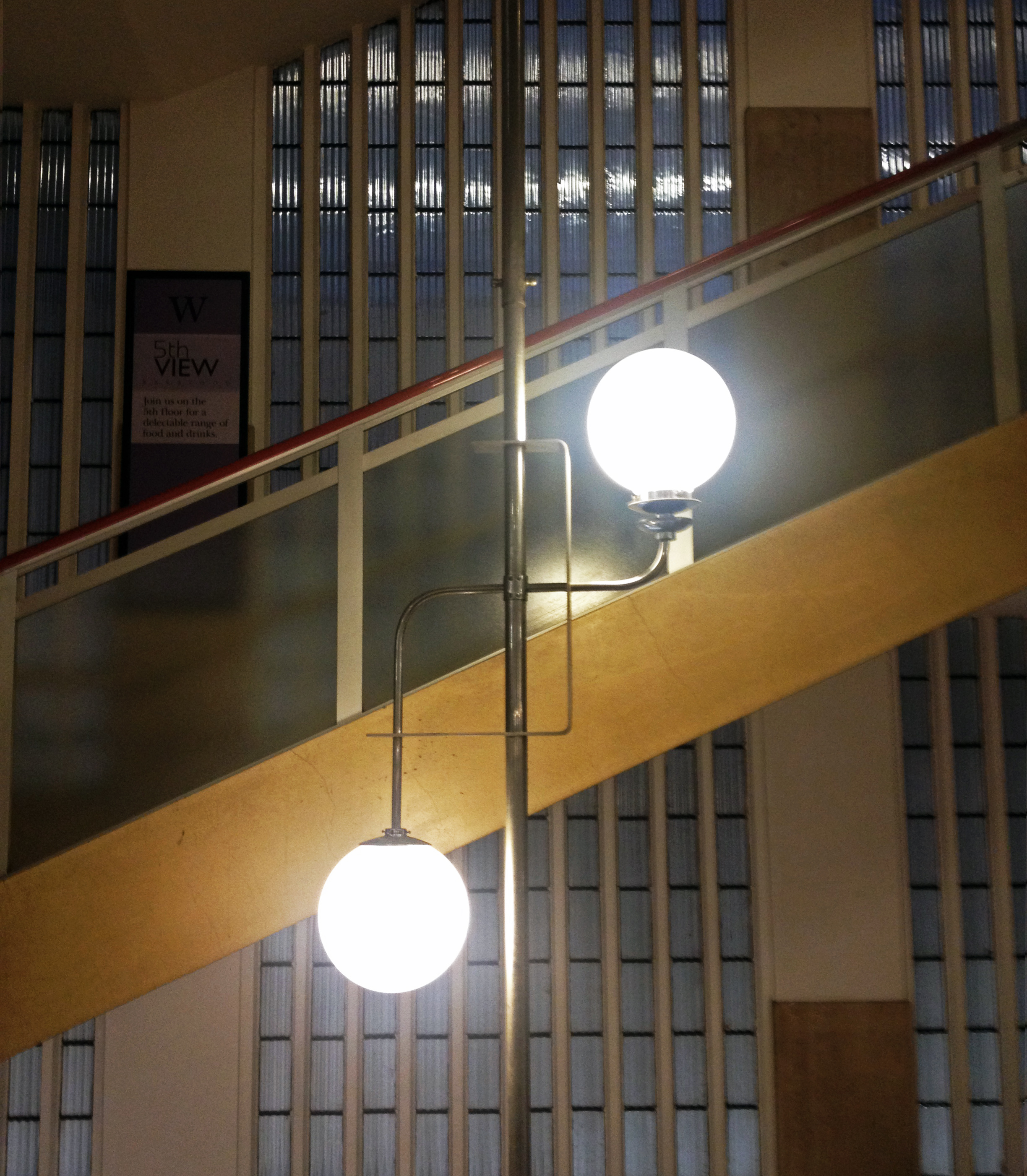 A straight-on view of the Grade Listed light fitting at the old Simpsons of Piccadilly store